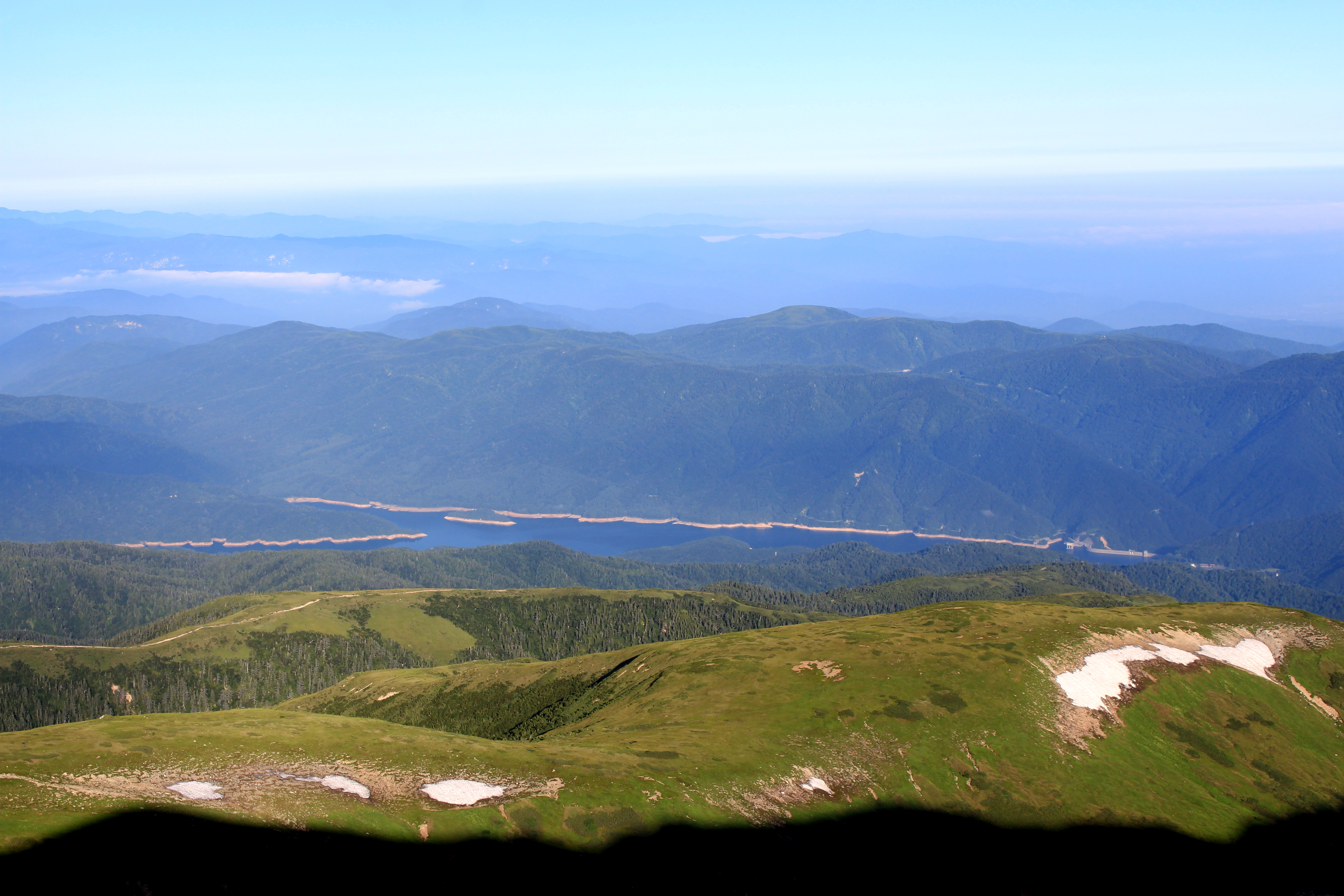 Lake Arimine seen from Mount Yakushi, in Toyama, Toyama prefecture, Japan.